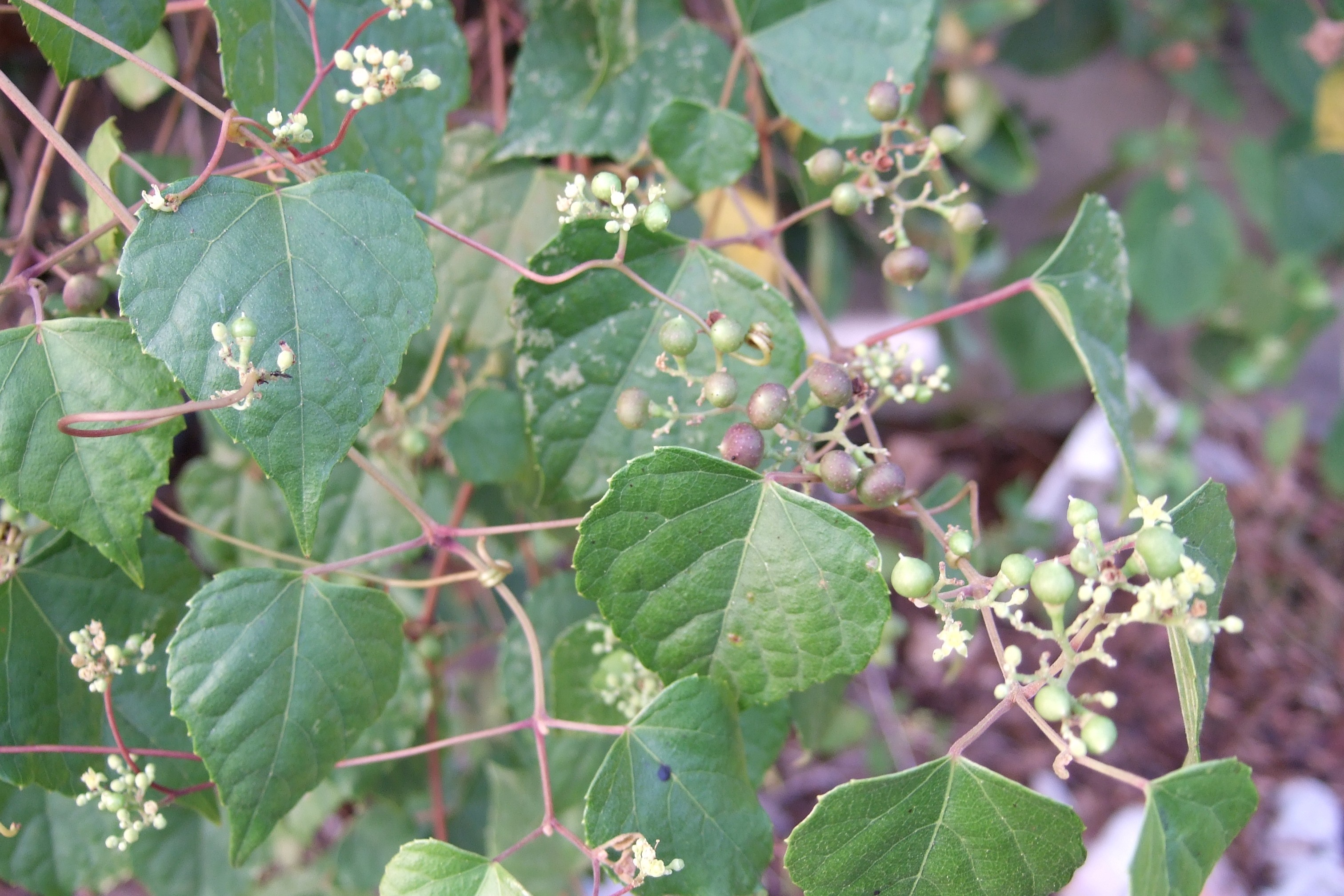 Ampelopsis brevipedunculata; Soaⁿ-phô-tô; 山葡萄